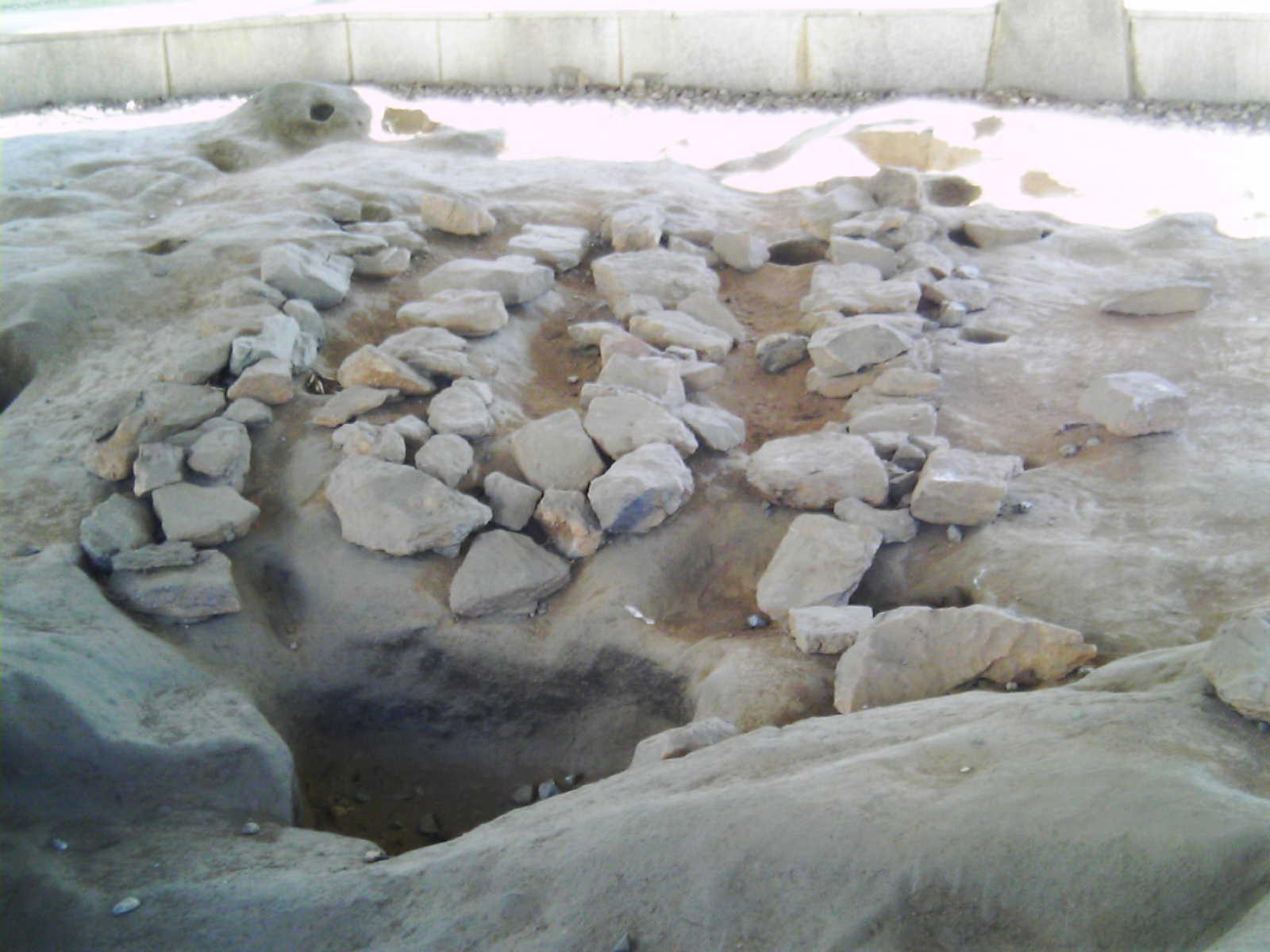 An (reconstructed) Baekje Ondol site from Gyeonggi Provintial Museum, Yongin, Gyeongi-do, South Korea